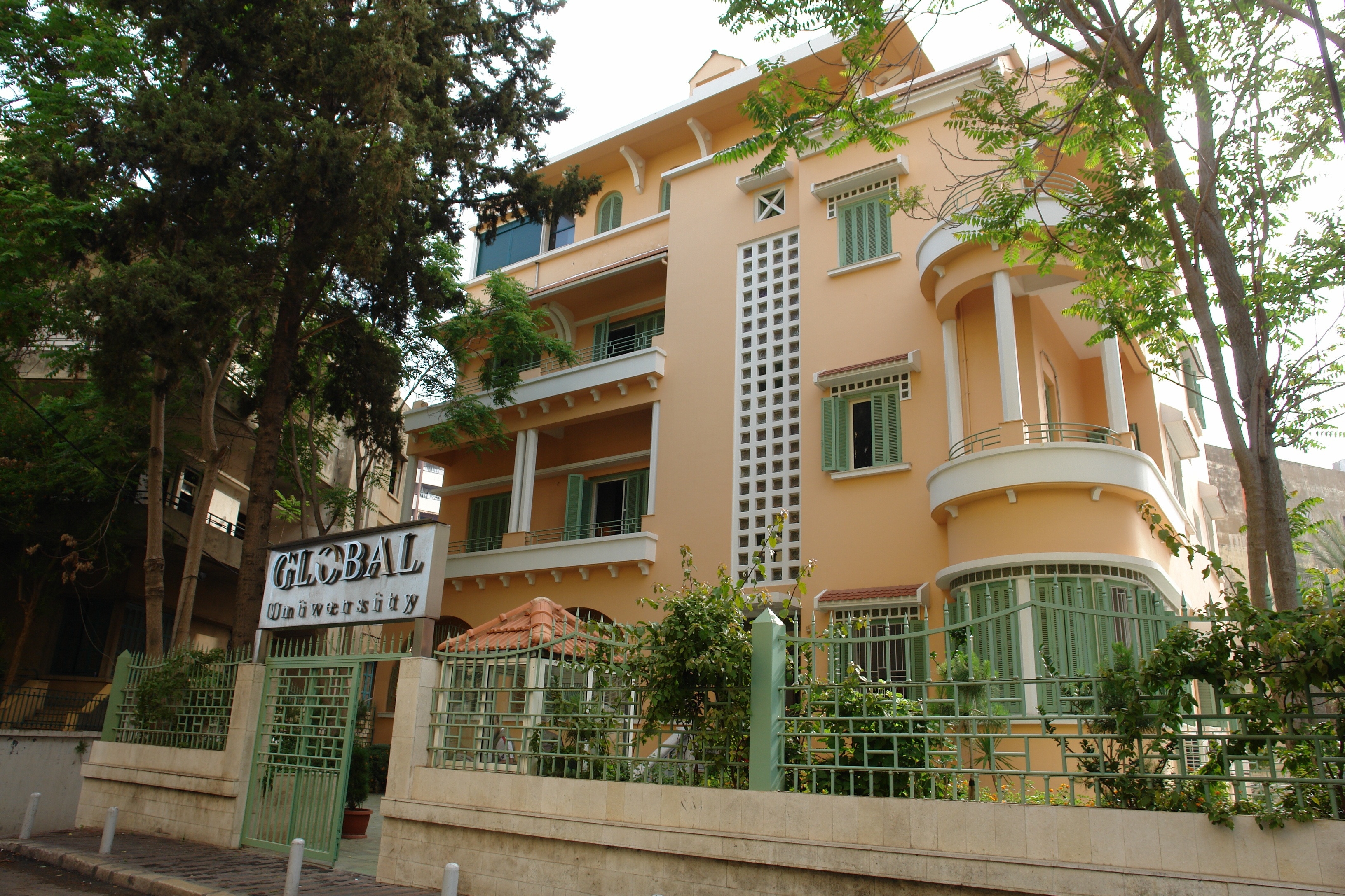 Global University Campus